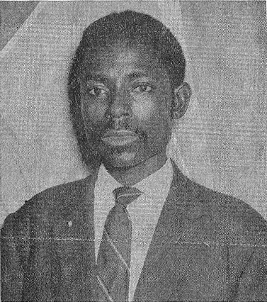 André Boboliko, graduate of the Institute of Social Sciences in Louvain. Commissioner for Labor and Social Affairs.